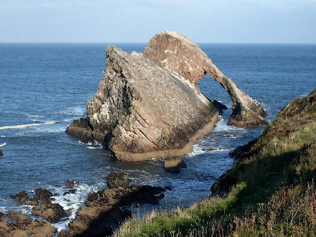 Bow Fiddle Rock. Wonderful place to watch seabirds at close range. Enjoy the walk from Cullen! It's not too far!!